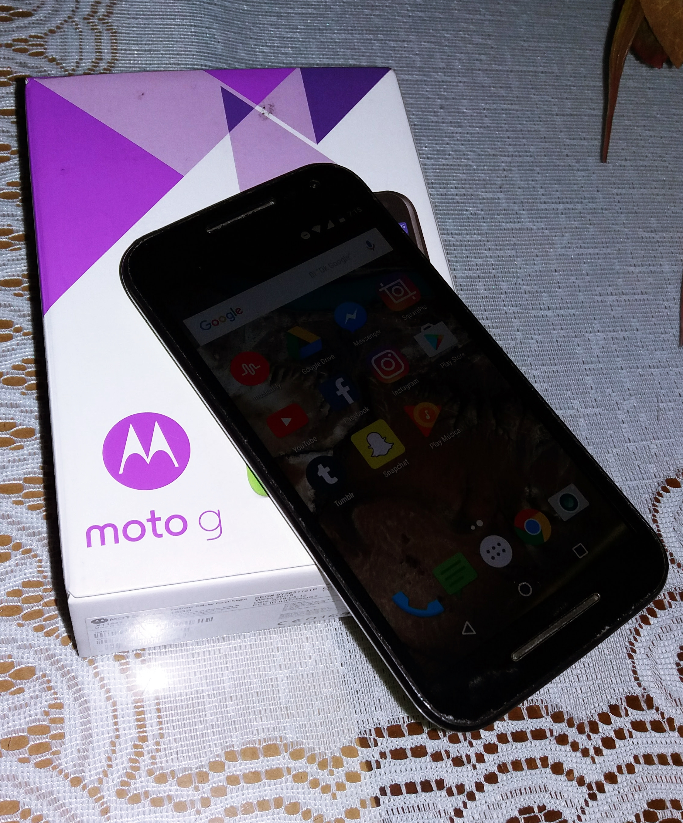 Motorola Moto G 3rd Generation, model XT1543 Dual-SIM, Colombian Model with Android 6.0.1 Marshmallow